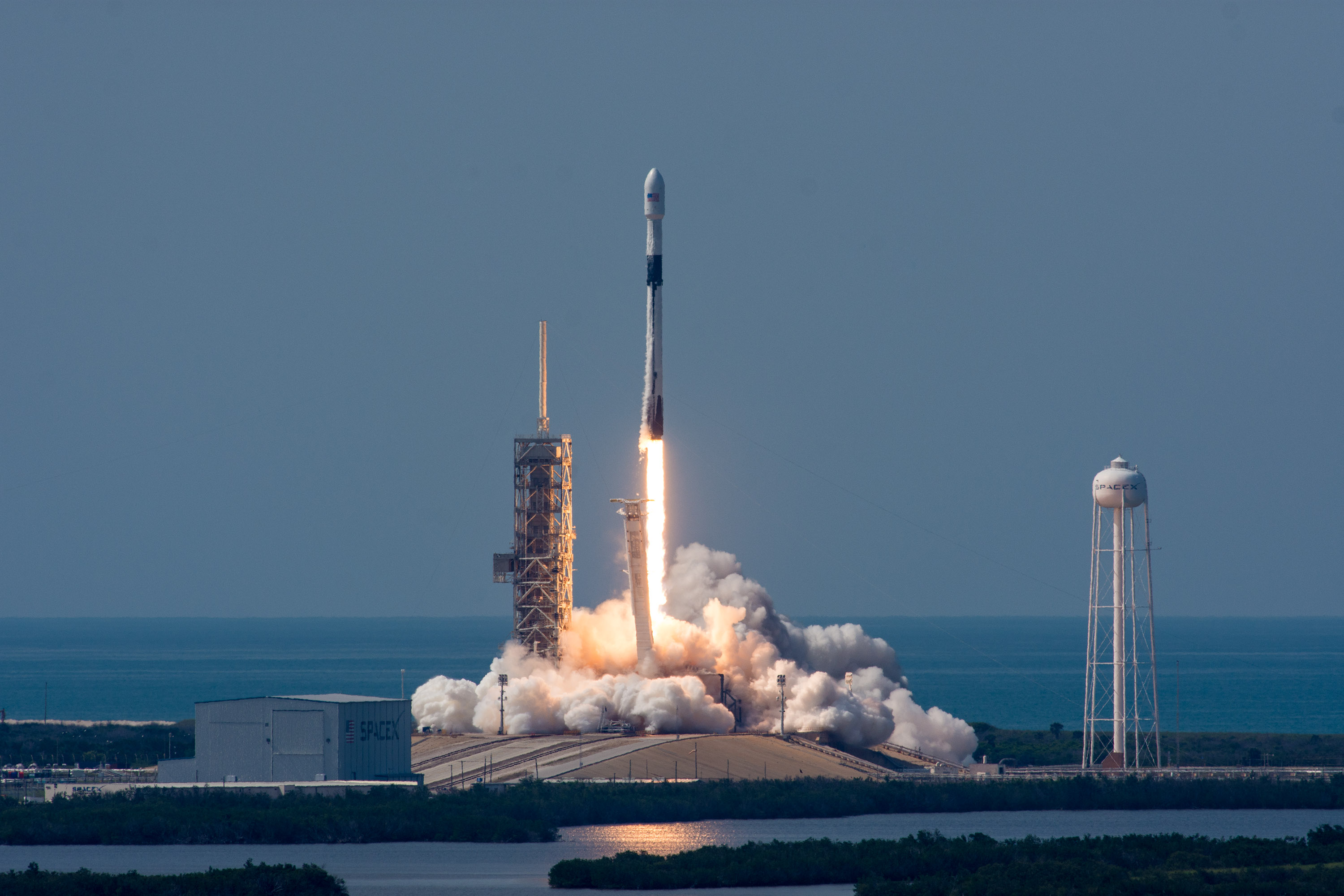 Bangabandhu Satellite-1 Mission